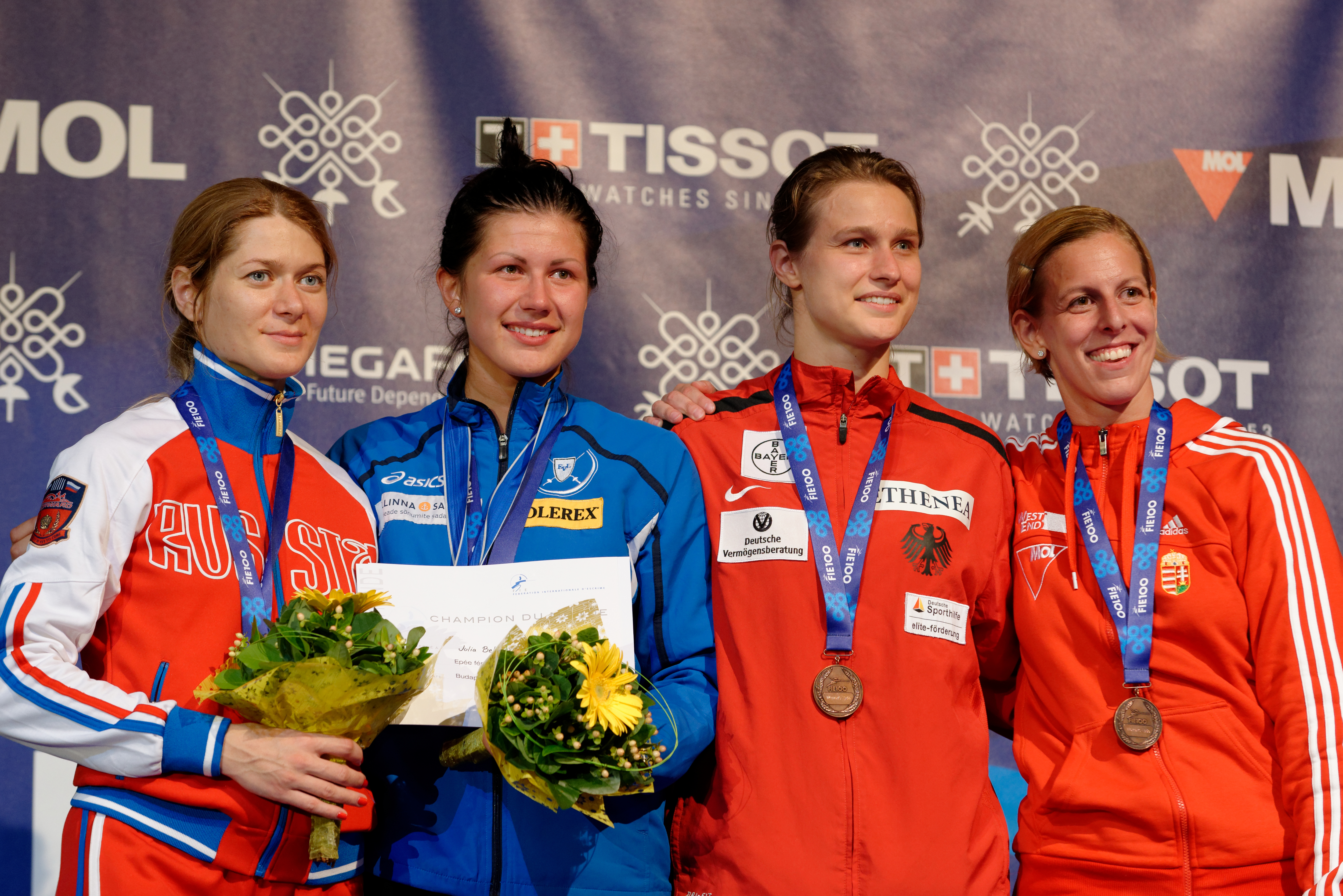 From left to right: Anna Sivkova, Julia Beljajeva, Britta Heidemann, and Emese Szász at the women's épée victory ceremony in the 2013 World Fencing Championships 2013 at Syma Hall in Budapest, 8 August 2013.